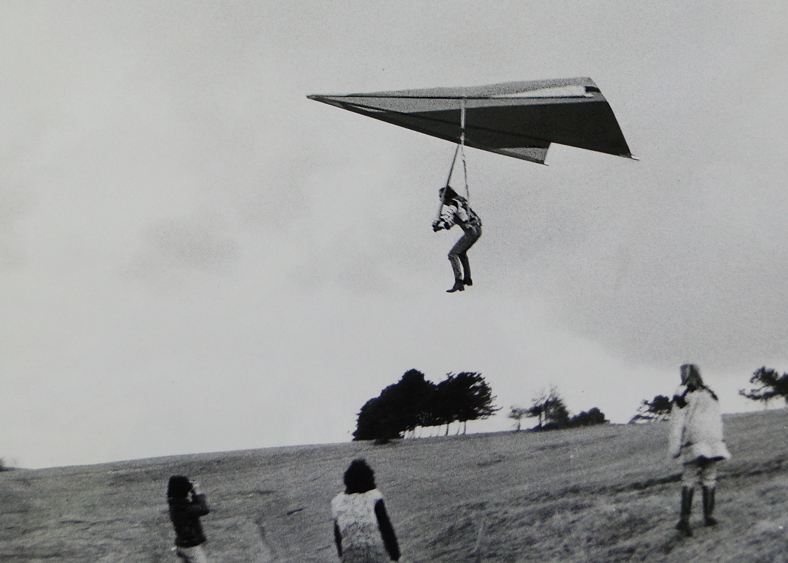 First flight of the prototype, beginning 1973.